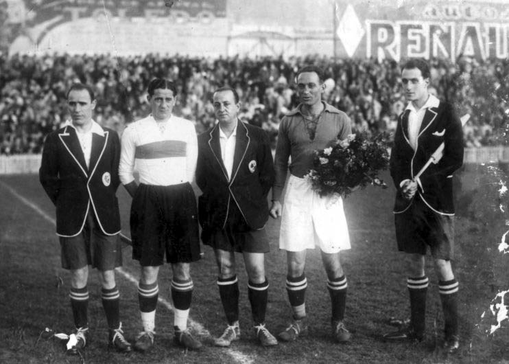 Real Madrid v. Gimnasia y Esgrima (LP) friendly match at Chamartín stadium. Captain José María Peña (RM) posing with GELP colleague and the referees of the match.